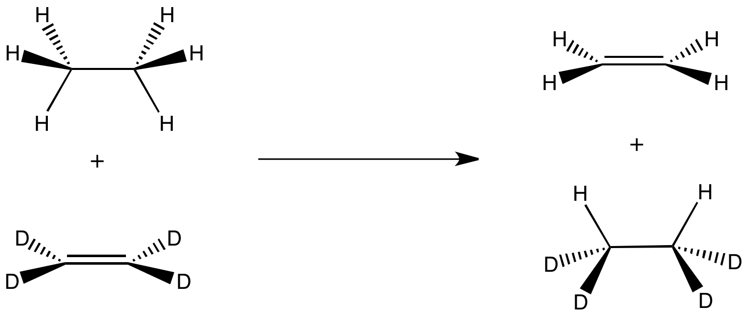 Group transfer of pair of H atoms from ethane to perdeuterioethene.